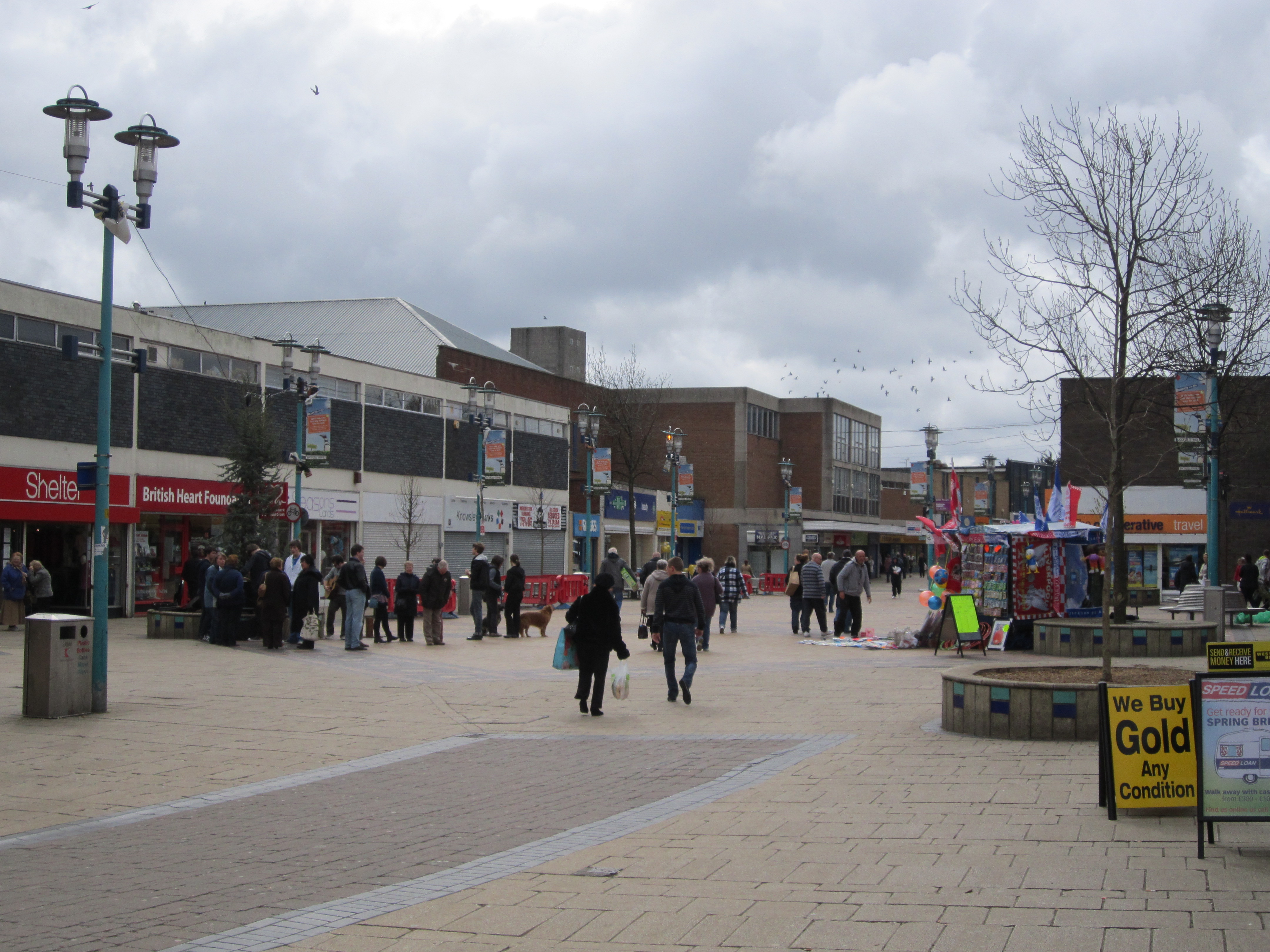 Derby Road, Huyton, Merseyside, England.